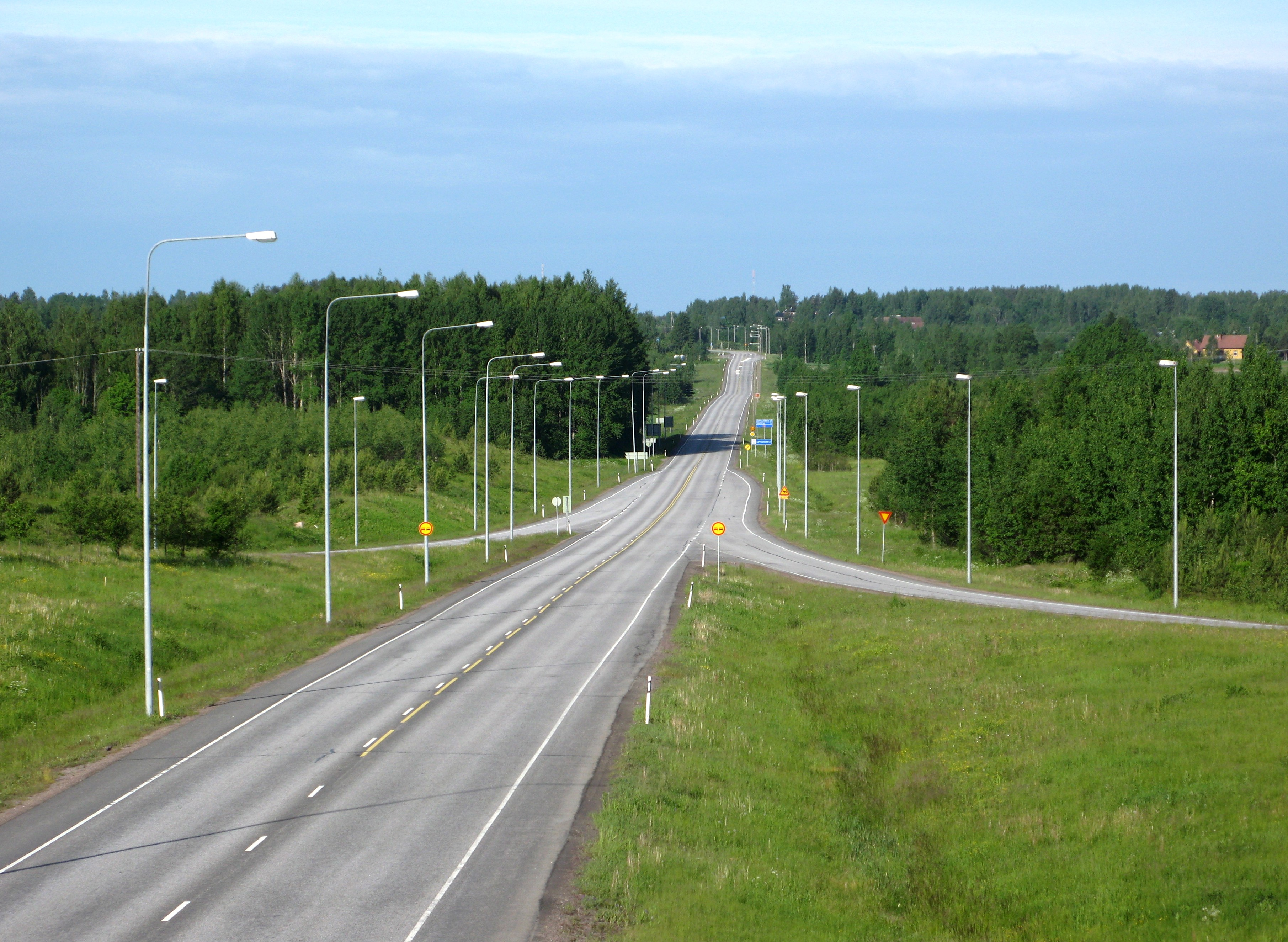 Highway 6 in Imatra, Finland, seen from the Korvenkanta junction to west.